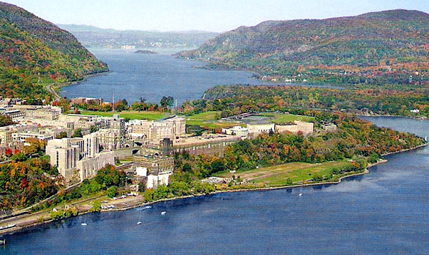 Aerial view of the United States Military Academy West Point., located in West Point, New York.